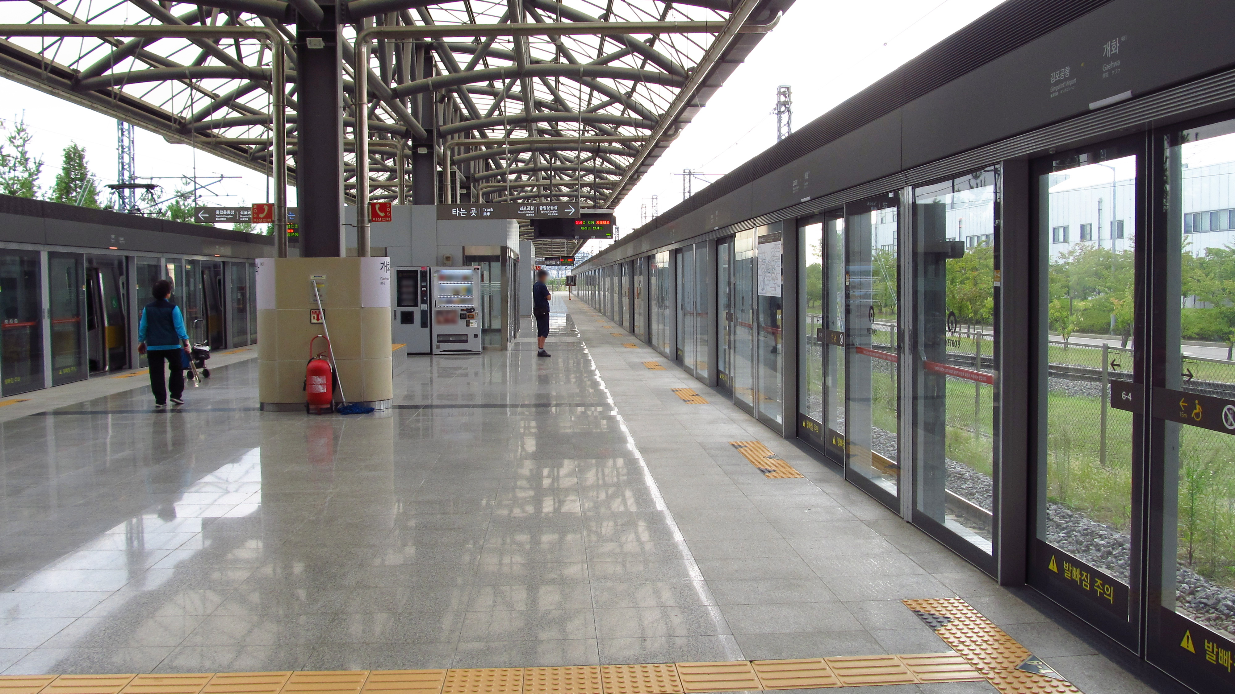 The platform at Gaehwa Station on Seoul Subway Line 9 in Gangseo-gu, Seoul, Republic of Korea(South Korea)